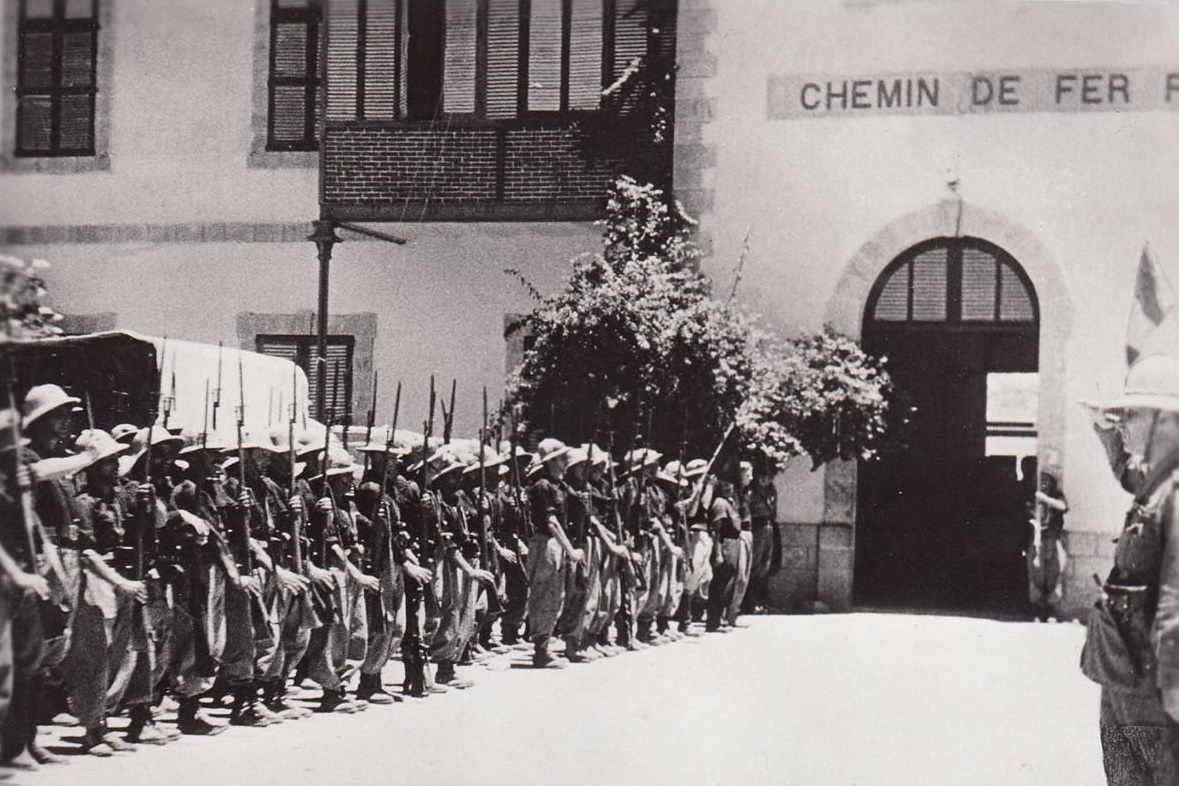 Members of the Italian Camicie Nere (Blackshirts) taking possession of the railway station at Dire Dawa, Ethiopia, in May 1936. The Djibouti-Dire Dawa-Addis Ababa Railway line was owned by the Franco-Ethiopian Railway Company (Chemin de fer franco-éthiopien).